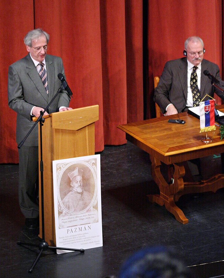 László Sólyom, 3rd President of the Republic of Hungary